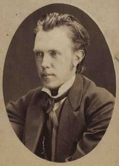 Hans Christian Harald Tegner (1853-1932), Danish artist